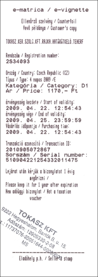 Hungarian 4 days road tax vignette (2009)